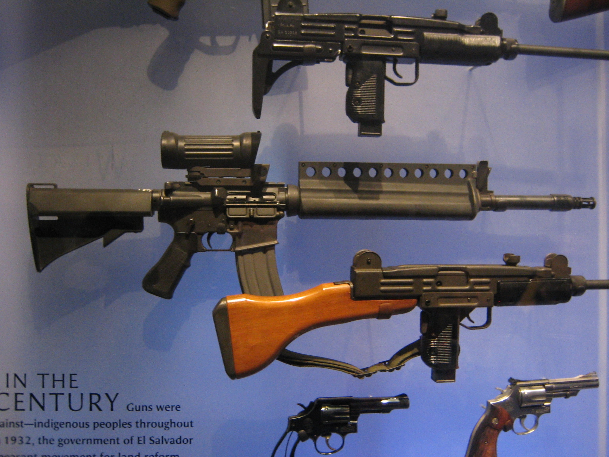 Picture of a Colt Advanced Combat Rifle/M16A2E2 prototype taken by me at the National Museum of the American Indian.